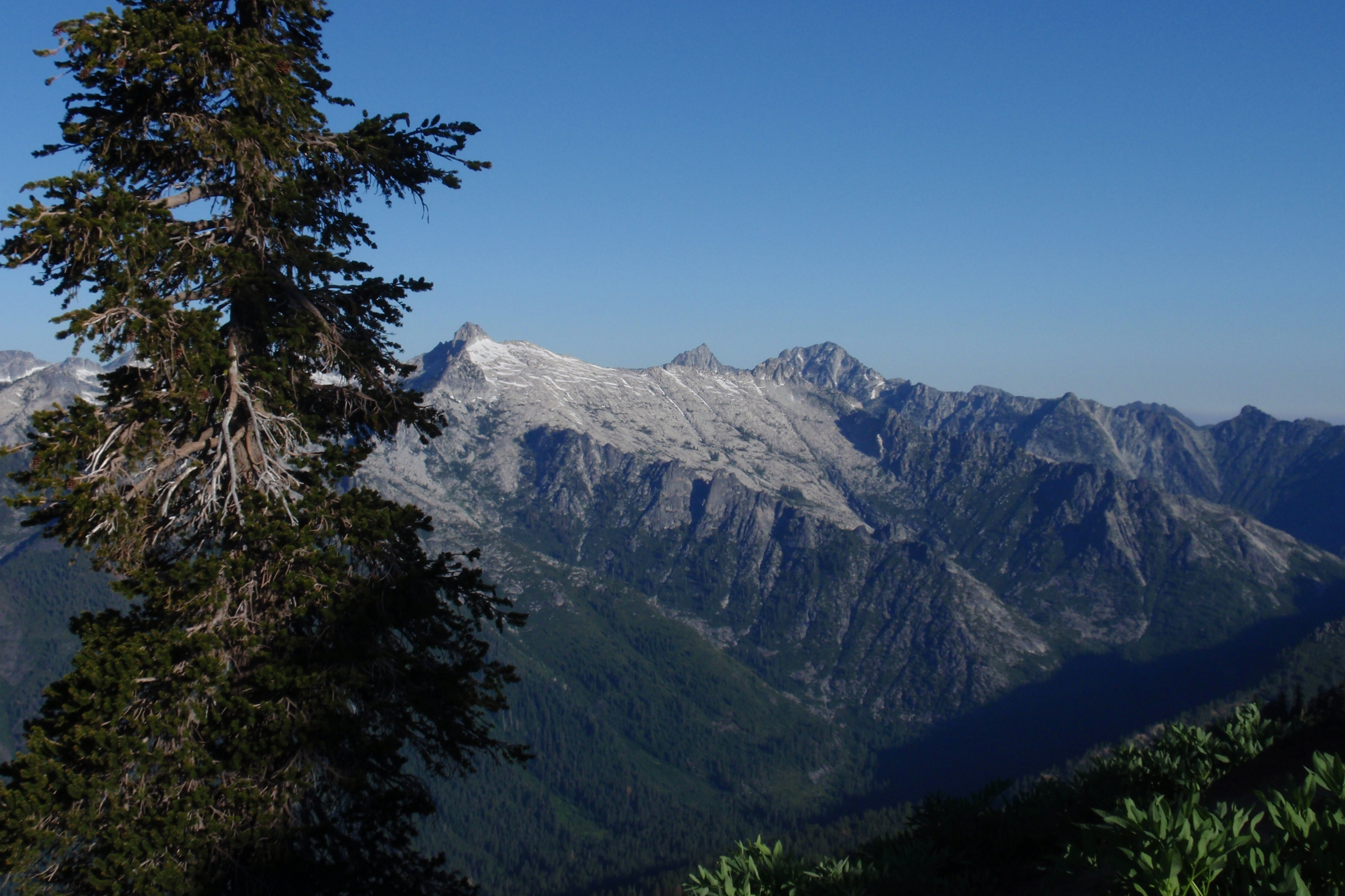 Granite Trinities mountains range (02)